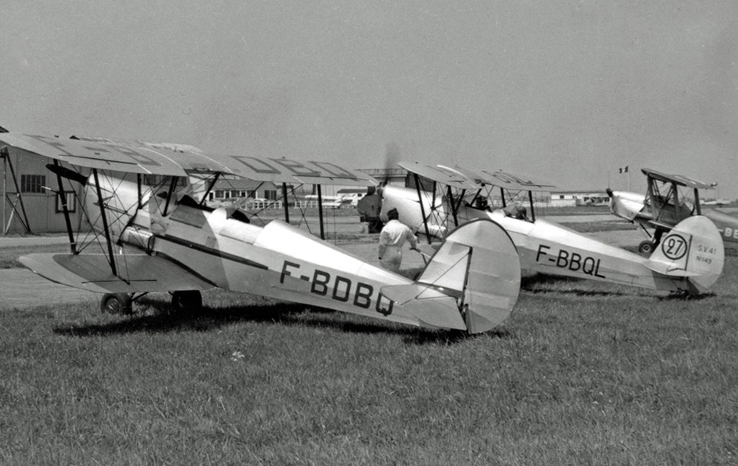 Stampe SV-4 training aircraft at St-Cyr-l'Ecole airfield near Paris in 1957